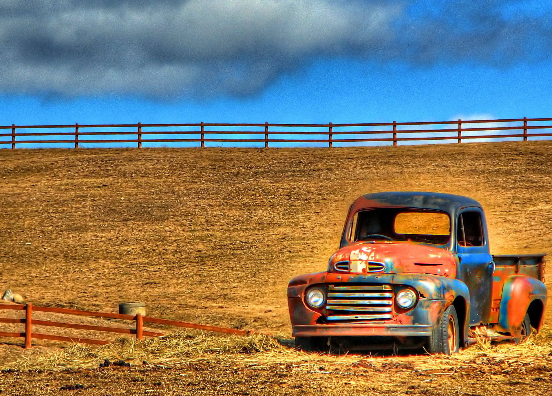 Oshawa, Ontario. Old Ford truck used as a feeding station for livestock.